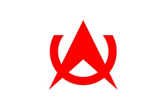 Flag of Yamakita Kanagawa